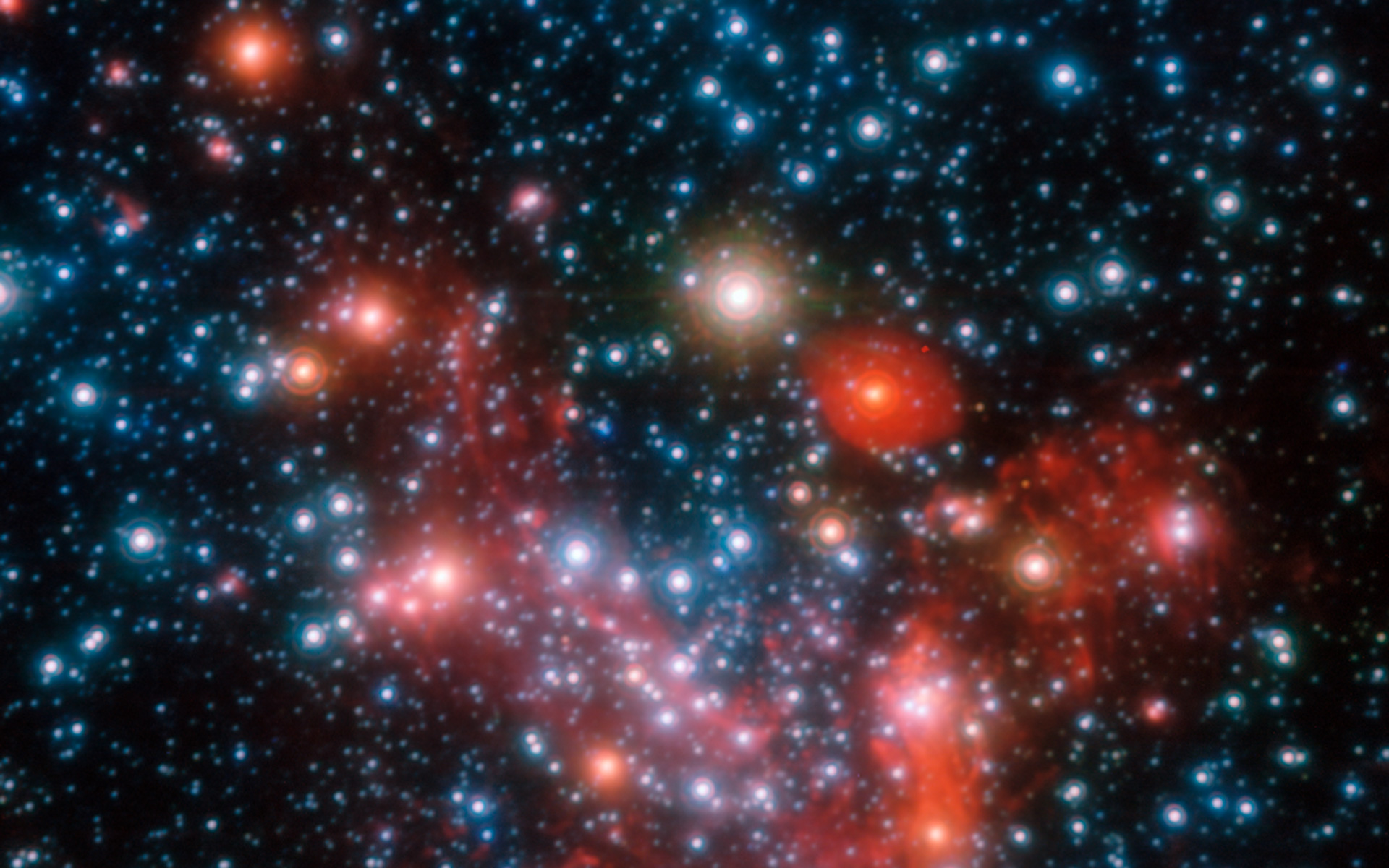 The central parts of our Galaxy, the Milky Way, as observed in the near-infrared with the NACO instrument on ESO's Very Large Telescope. By following the motions of the most central stars over more than 16 years, astronomers were able to determine the mass of the supermassive black hole that lurks there.